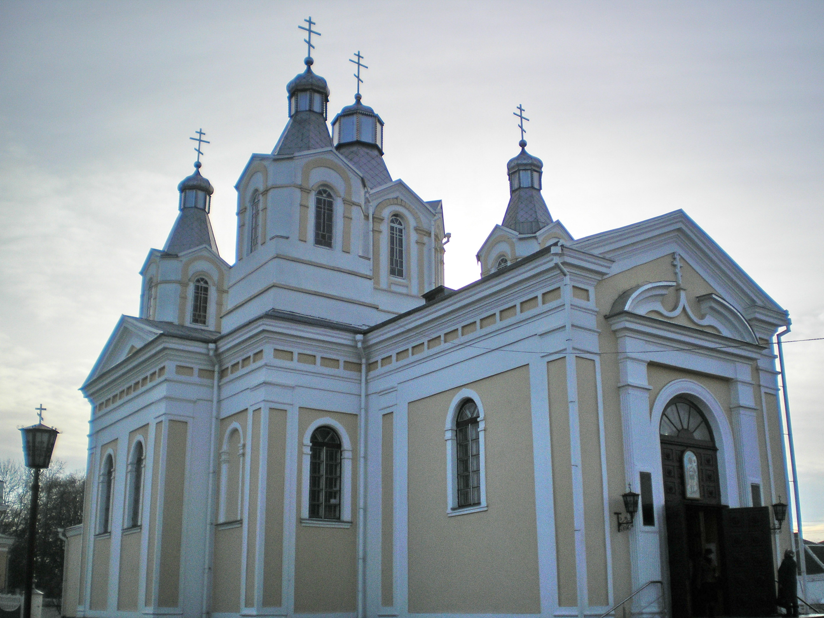 Orthodox Church of Alexander Nevski in Kobrin